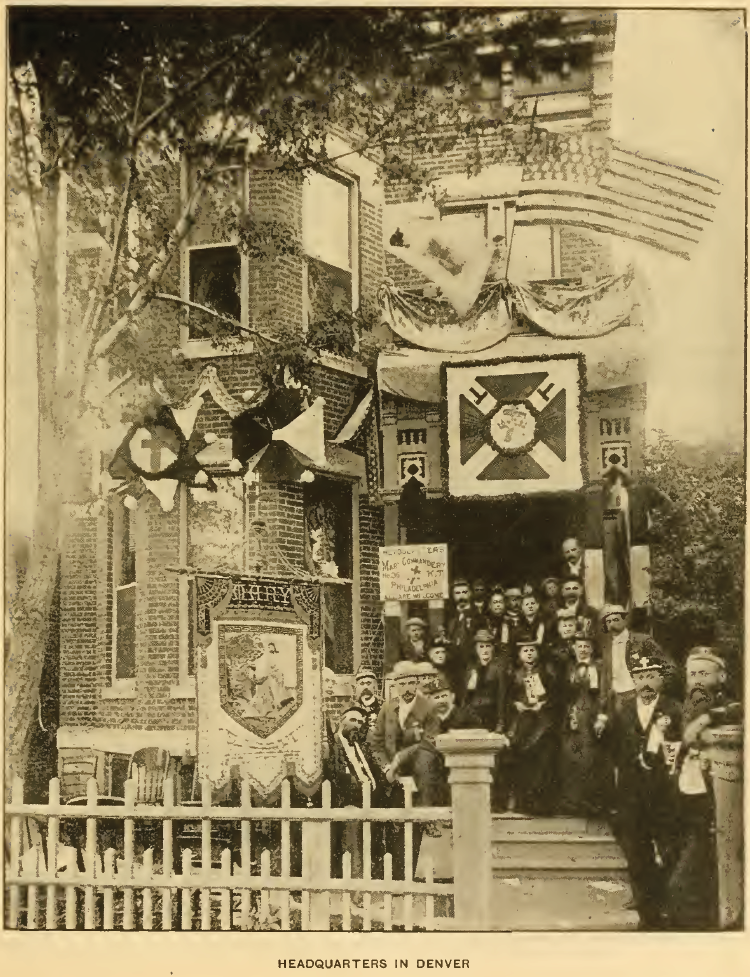 The Headquarters of Knights Templar (Masonic Order) in Denver, USA (1892).